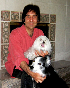 Gary Francione, Distinguished Professor of Law and Nicholas deB. Katzenbach Scholar of Law & Philosophy at Rutgers School of Law-Newark, with Mollie and Katie, who were rescued from a kill shelter.